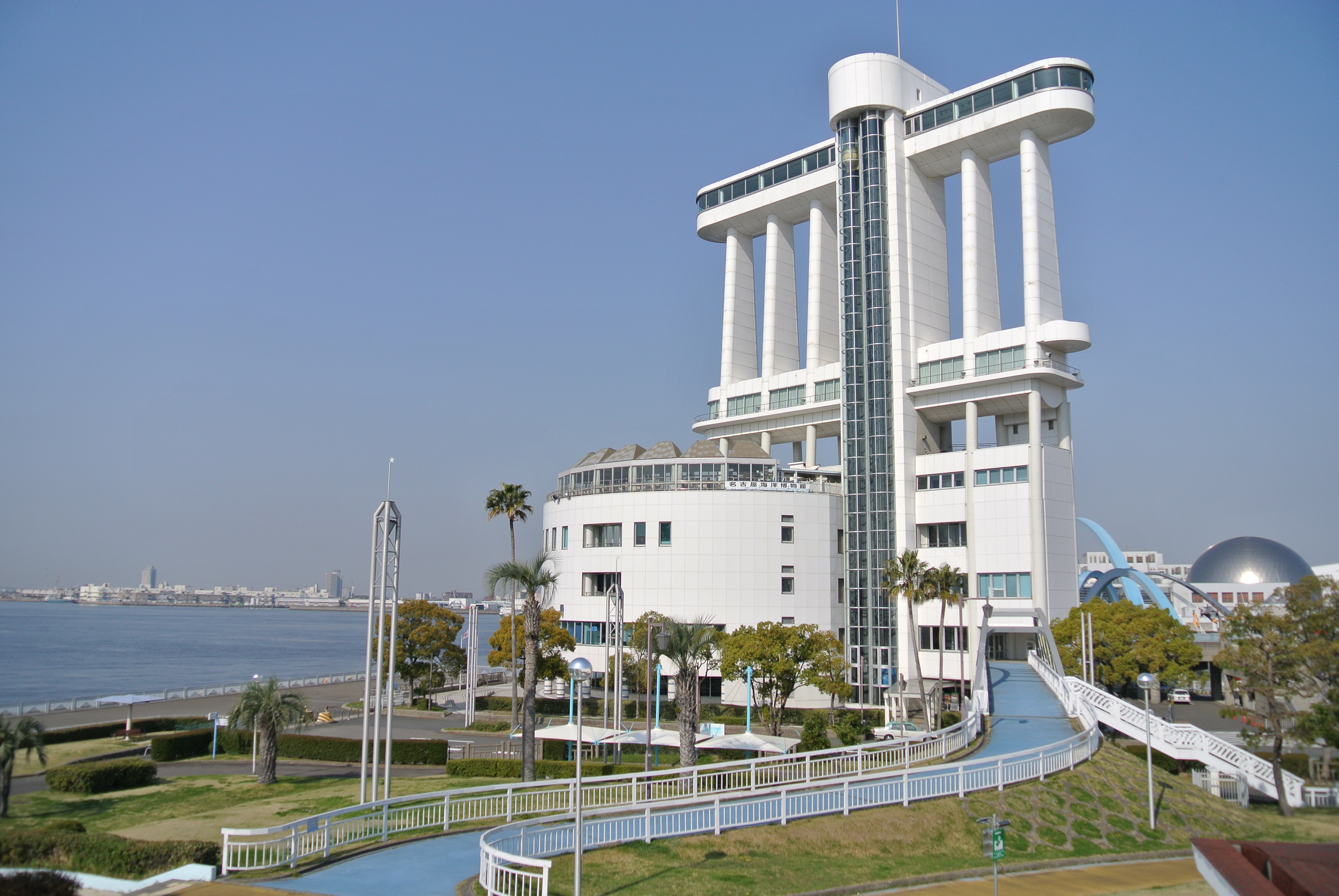 Nagoya Port Building